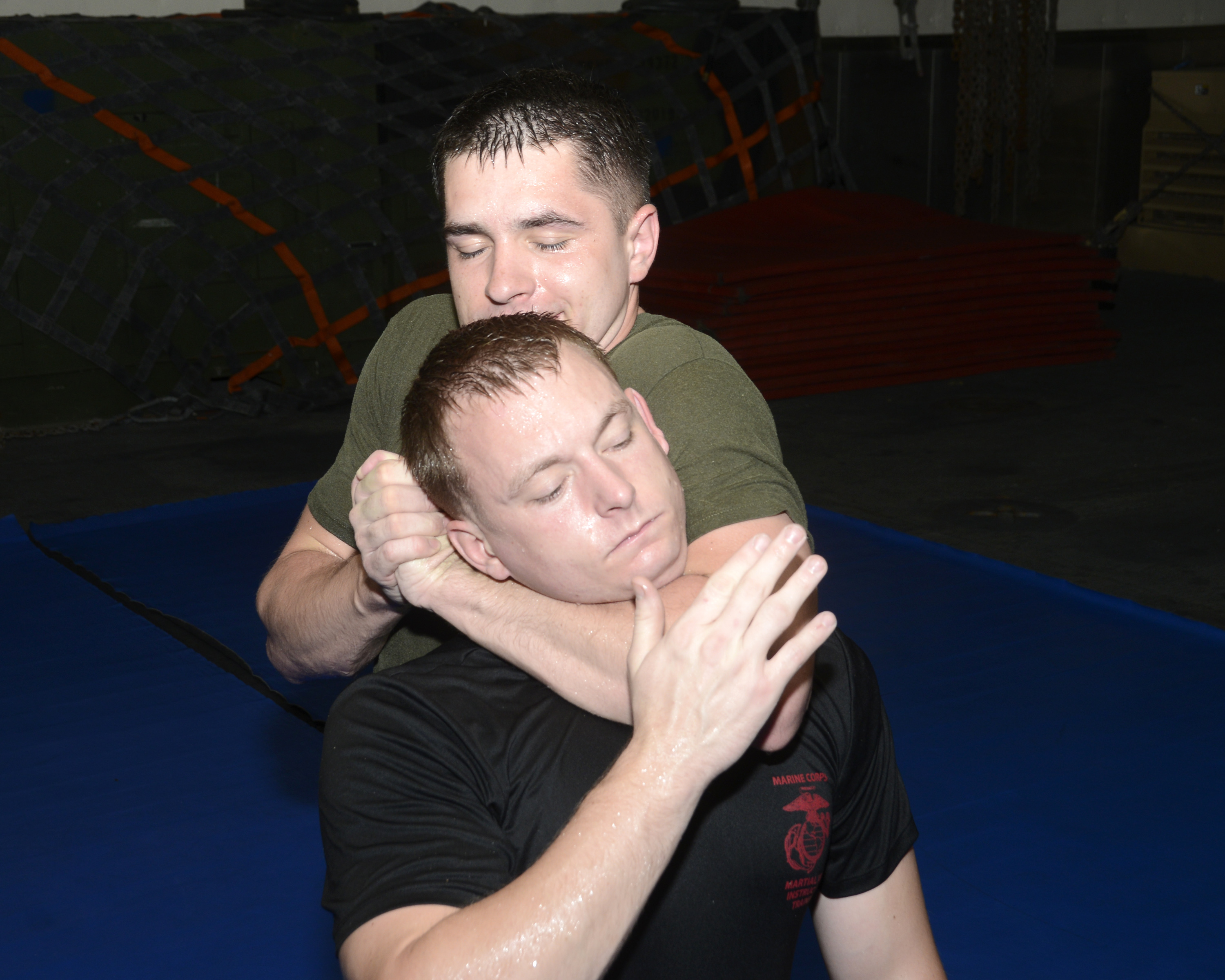 U.S. 5TH FLEET AREA OF RESPONSIBILITY (Aug. 4, 2014) â Marine Cpl. Richard Collins, from Detroit, executes a rear choke technique on Marine Sgt. Kyle Himes, from Aliquippa, Pa., during Marine Corps Martial Arts Program (MCMAP) training aboard the amphibious transport dock ship USS Mesa Verde (LPD 19). Mesa Verde is a part of the Bataan Amphibious Ready Group and, with the embarked 22nd Marine Expeditionary Unit, is deployed in support of maritime security operations and theater security cooperation efforts in the U.S. 5th Fleet area of responsibility. (U.S. Navy photo by Seaman Phylicia A. Hanson/Released)